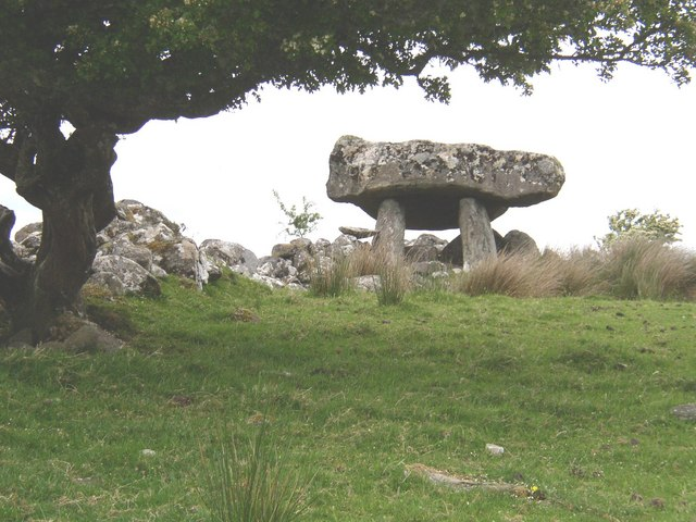 The Giant's Griddle The local name for one of Ireland's most impressive dolmens